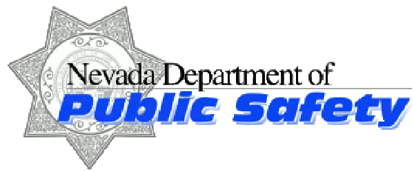 Image is similar, if not identical, to the logo of the Nevada Department of Public Safety. Made with Photoshop.